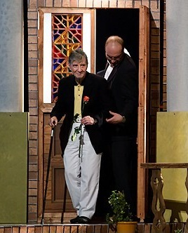 Nader Golchin